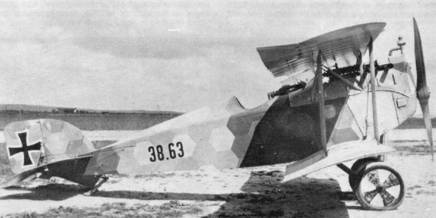 Aviatik D.I, s/n 38.63, one of the first series